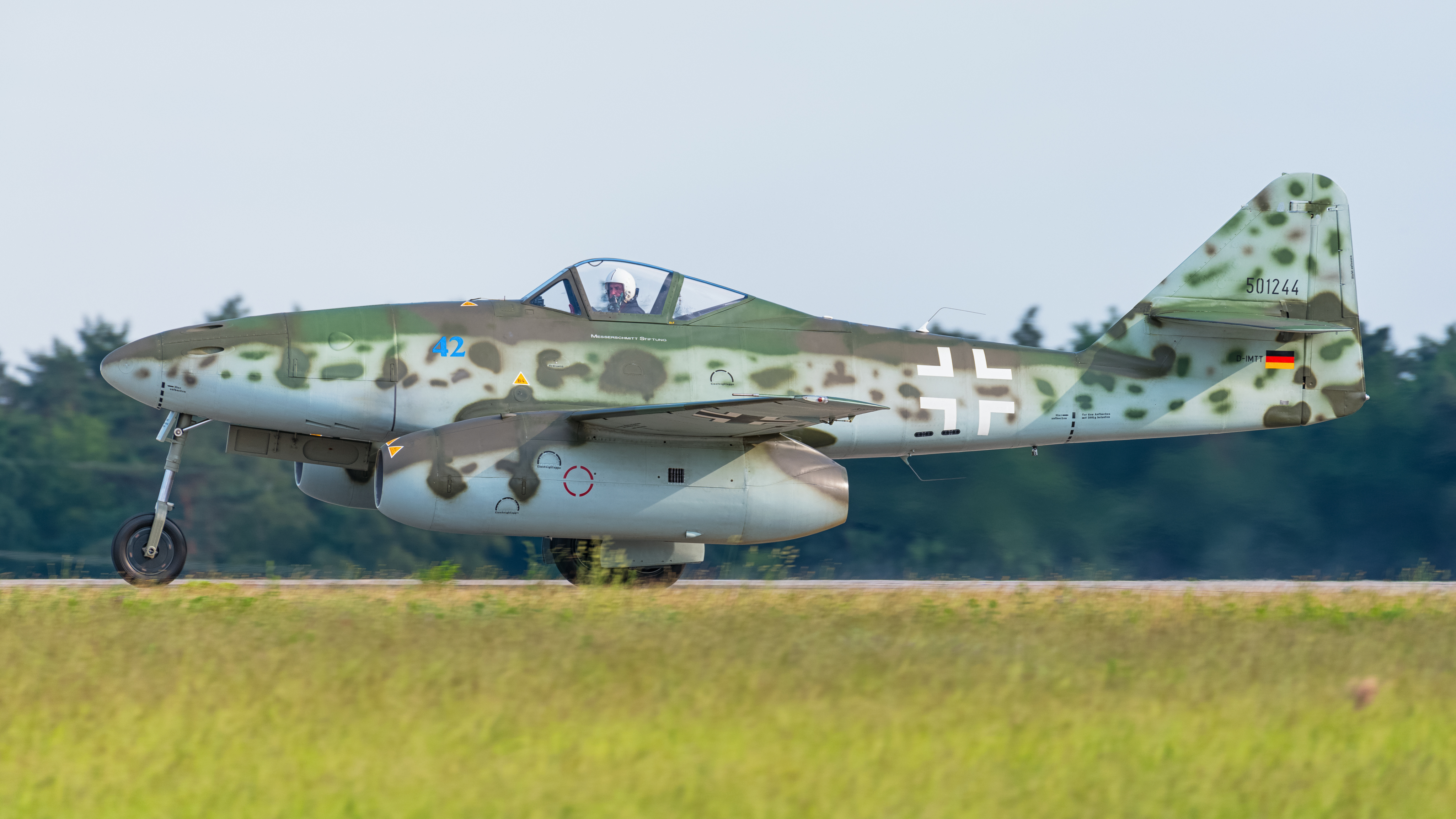 Messerschmitt Stiftung/Flugmuseum Messersschmitt Messerschmitt Me 262 B1-A replica (reg. D-IMTT, marking 501244) at ILA Berlin Air Show 2016.